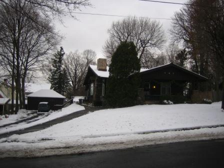 Fuller House, 215 Salt Springs Road, Syracuse, New York. Photo 1.